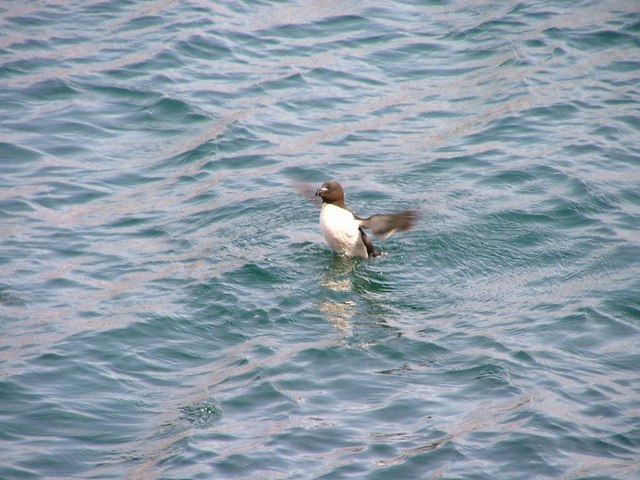 A razorbill in Loch na Keal, near Ulva, Inner Hebrides. "Taken from the road this Razorbill was a few metres offshore and seemed to be exercising its wings. Normally seen in colonies perhaps it's a youngster blown off course"